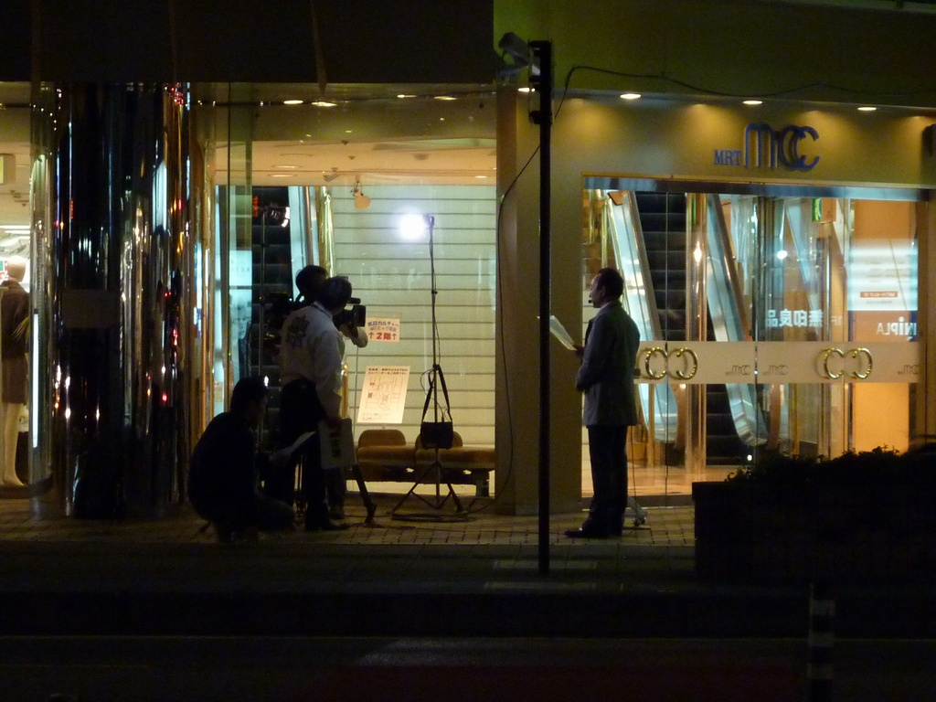 Weather Information - TV News Program "MRT News Next" (Miyazaki Broadcasting - Miyazaki Prefecture, Japan)